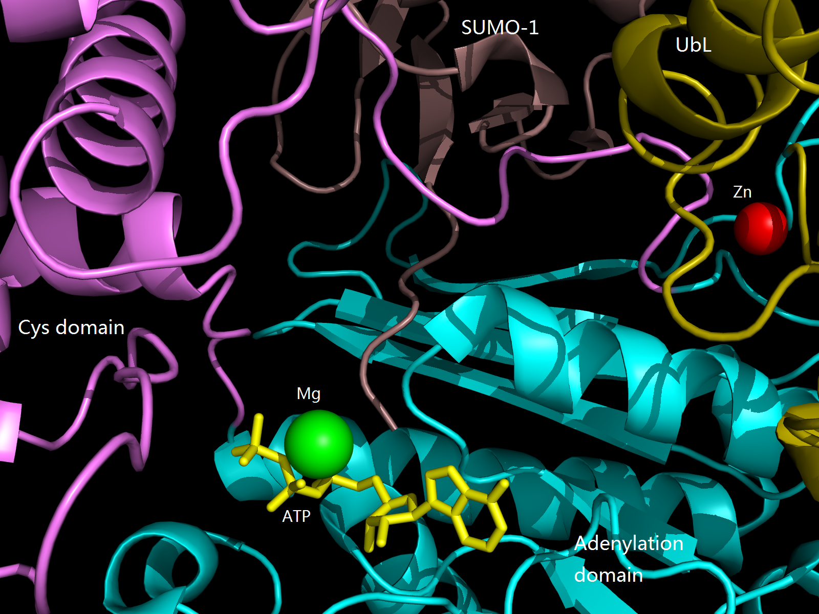 UBA2 in conjugation with SUMO-1. Based on PyMOL rendering of PDB 1Y8R.